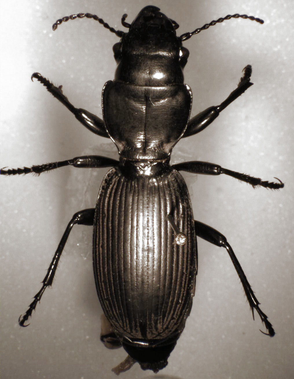 adult male Mecodema oconnori